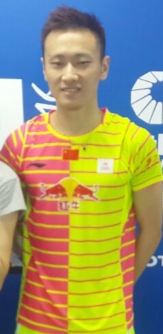 Zhao Yunlei (left) and Zhang Nan during a press conference at the 2016 Indonesia Open